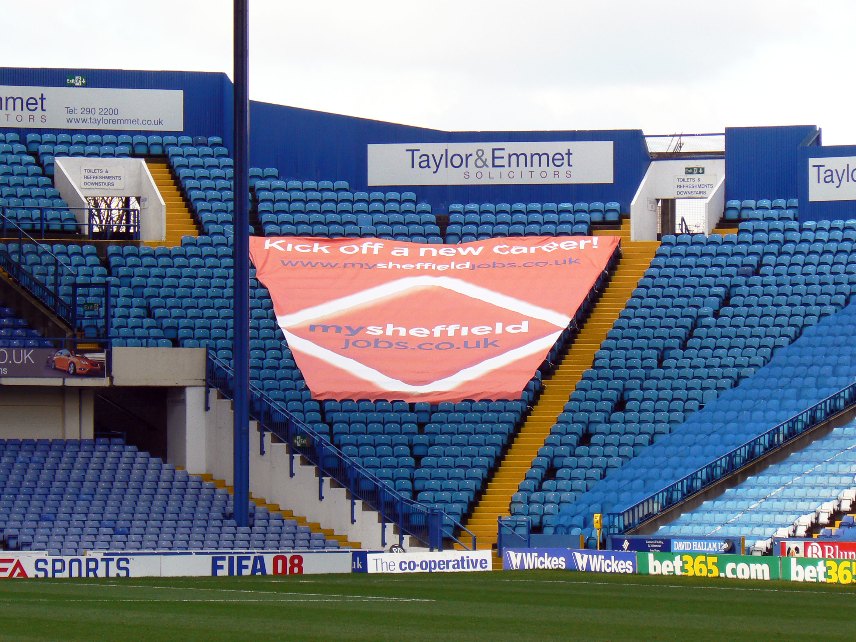 View of the 'North West terrace' stand (otherwise referred to as 'The Crows Nest' stand by sections of fans) at Hillsborough Stadium, Sheffield. Homw to Sheffield Wednesday Football Club.